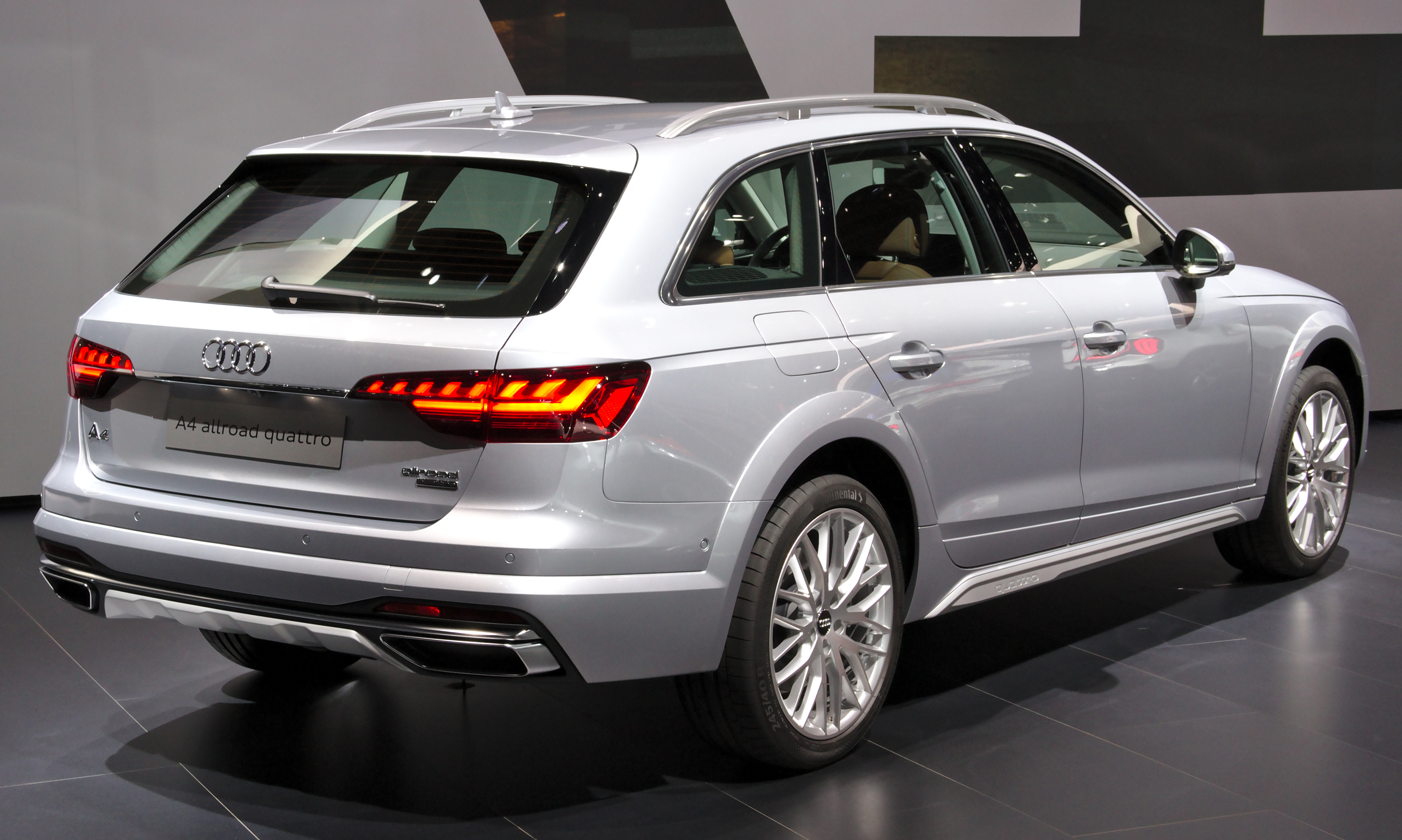 Audi_A4_Allroad_Quattro_B9 at IAA 2019